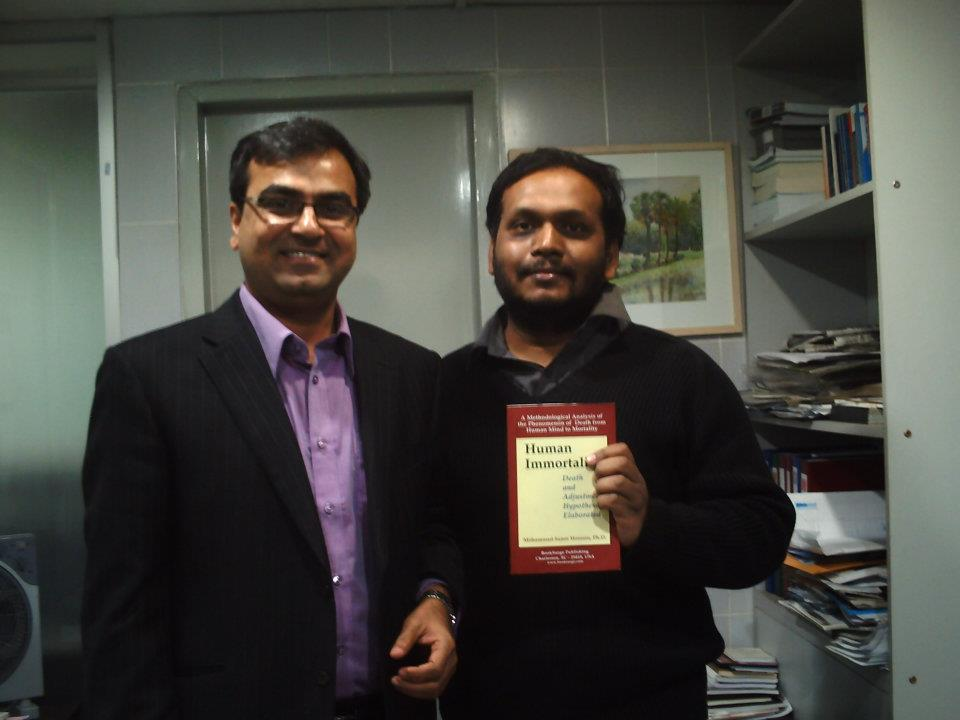 This is a photograph taken when Dr Samir personally visited the prominent journalist Za E Mamun, news head at ATN Bangla TV channel for Death Education campaigning.